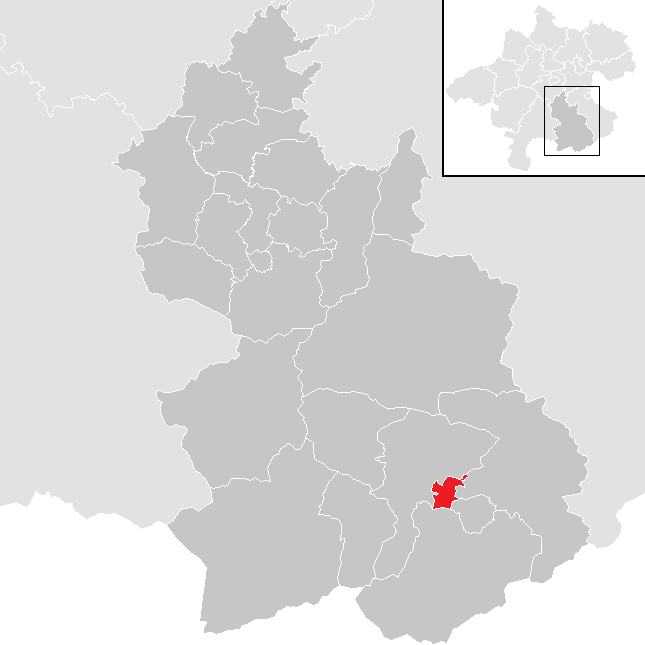 district Kirchdorf an der Krems